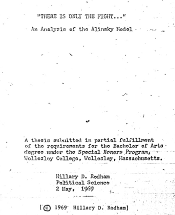 Cover page to the 1969 senior thesis of Hillary Rodham (later known as Hillary Rodham Clinton)